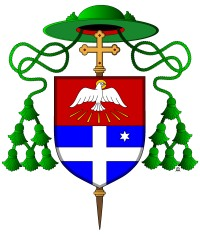 Coat of arms of Josef Doubrava, Bishop of Hradec Králové